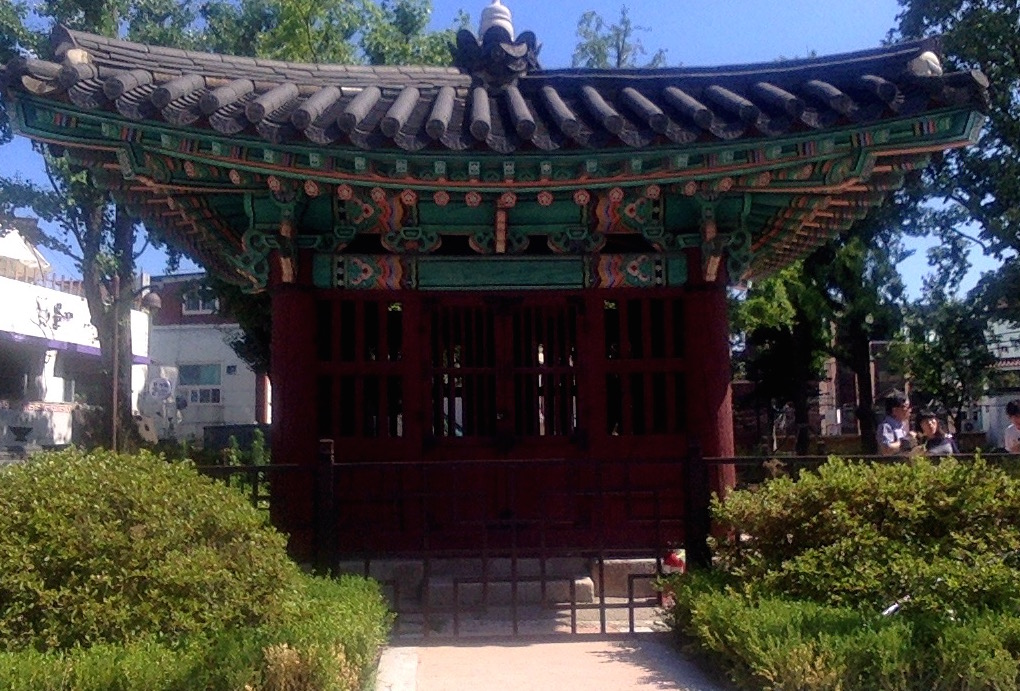 Tangpyeongbi built by King Yeongjo of Joseon Dynasty.